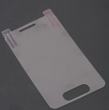 A screen protector for the iphone 5